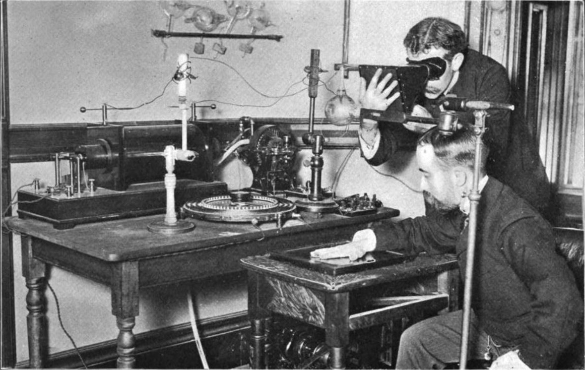 Photo of experimenters taking an X-ray with an early Crookes tube apparatus, from the late 1800s. The Crookes x-ray tube is visible suspended at center. The upper man is examining the bones of his hand with a fluoroscope screen. The lower man is taking a radiograph of his hand with a photographic plate. The power source is an induction coil, seen at left, and the mechanism immediately to its right against the wall is a motor-operated 'break wheel' interrupter in the coil's primary circuit. The large flat disk on the table is a rheostat (adjustable resistor) power control to adjust the primary current to the coil. Several spare Crookes X-ray tubes are seen in a rack on the wall. The apparatus is described and diagrammed on p.88 of the source. No precautions against radiation exposure are taken; its hazards were not known at the time. The original image was half-tone. Alterations: removed frame.